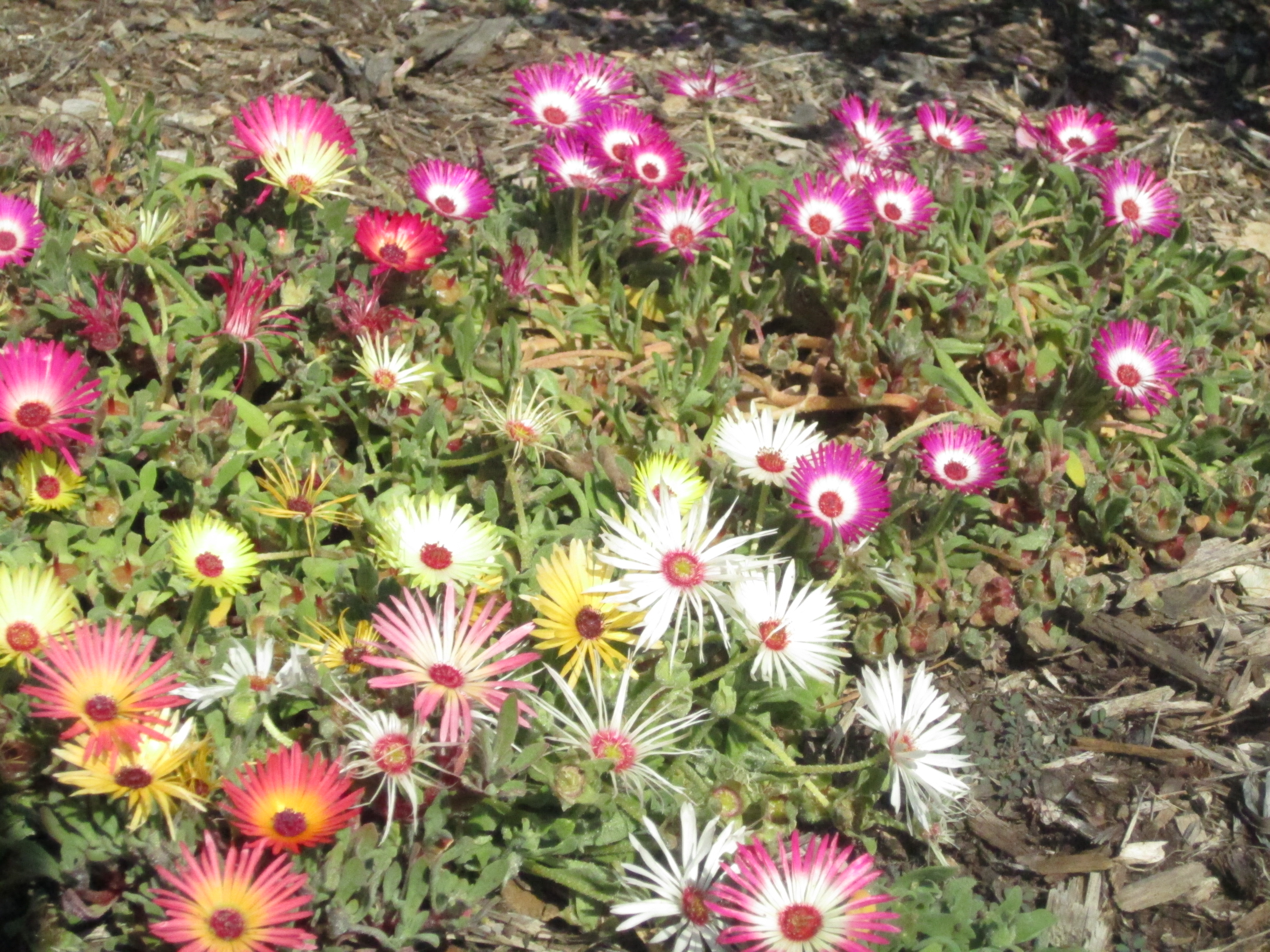 The making of this file was supported by Wikimedia Australia. To see other files made with WM-AU support, please see the category Supported by Wikimedia Australia.